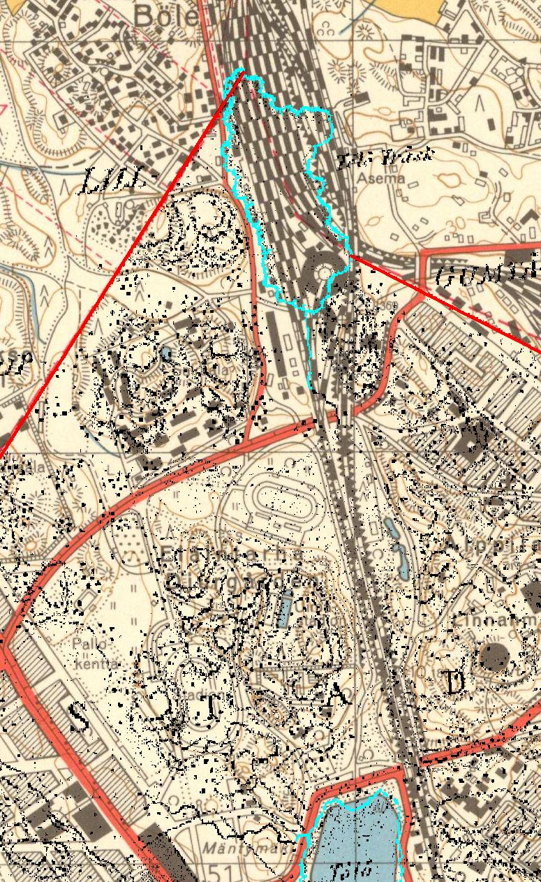 Töölönjärvi Image maps 1961 and 1818 overlapping